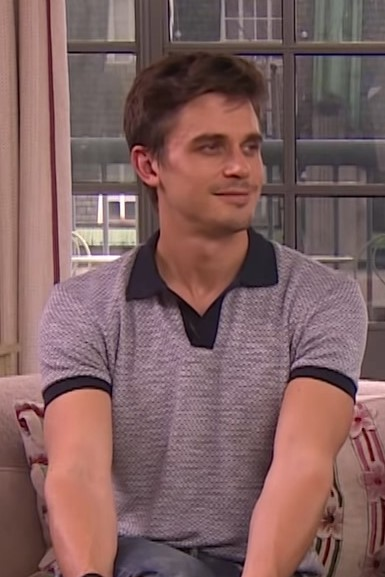 Antoni Porowski at an MTV International interview on June 2018.